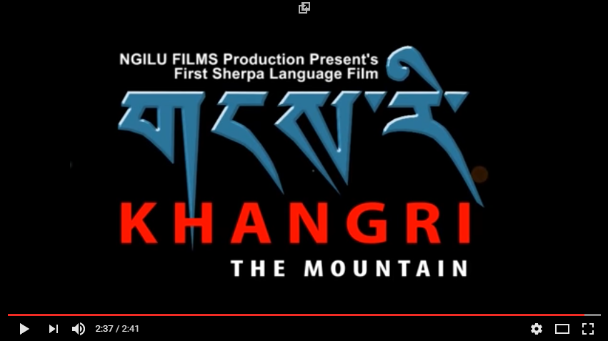 Title of First Sherpa Language Film Khangri (The Mountain)